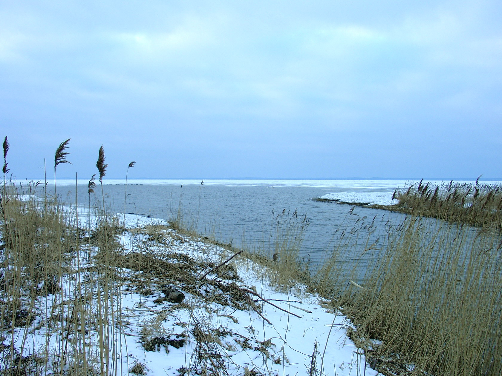 Bauda's estuary to Vistula Lagoon